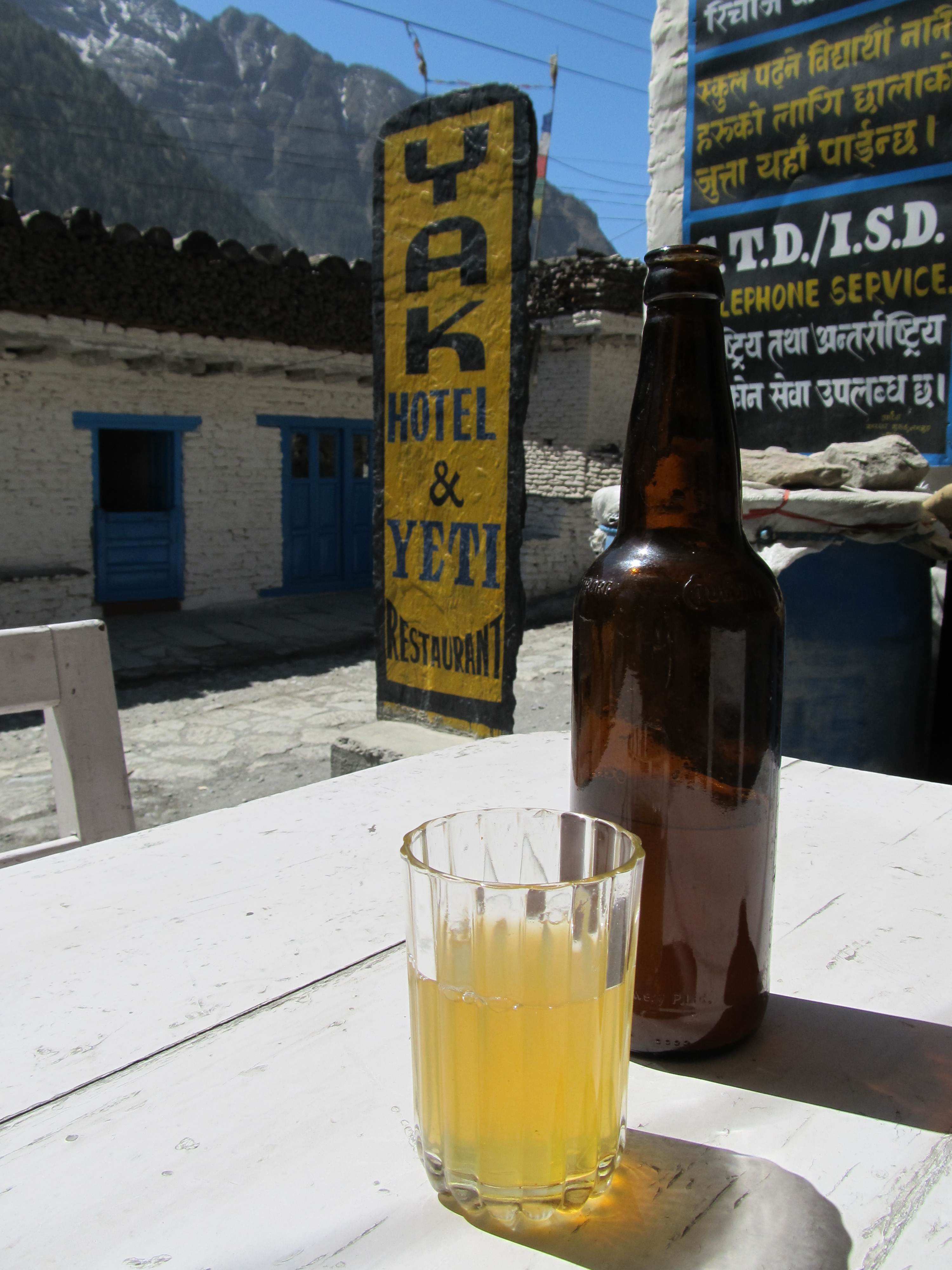 Apple juice in Tukuche, a speciality of the area